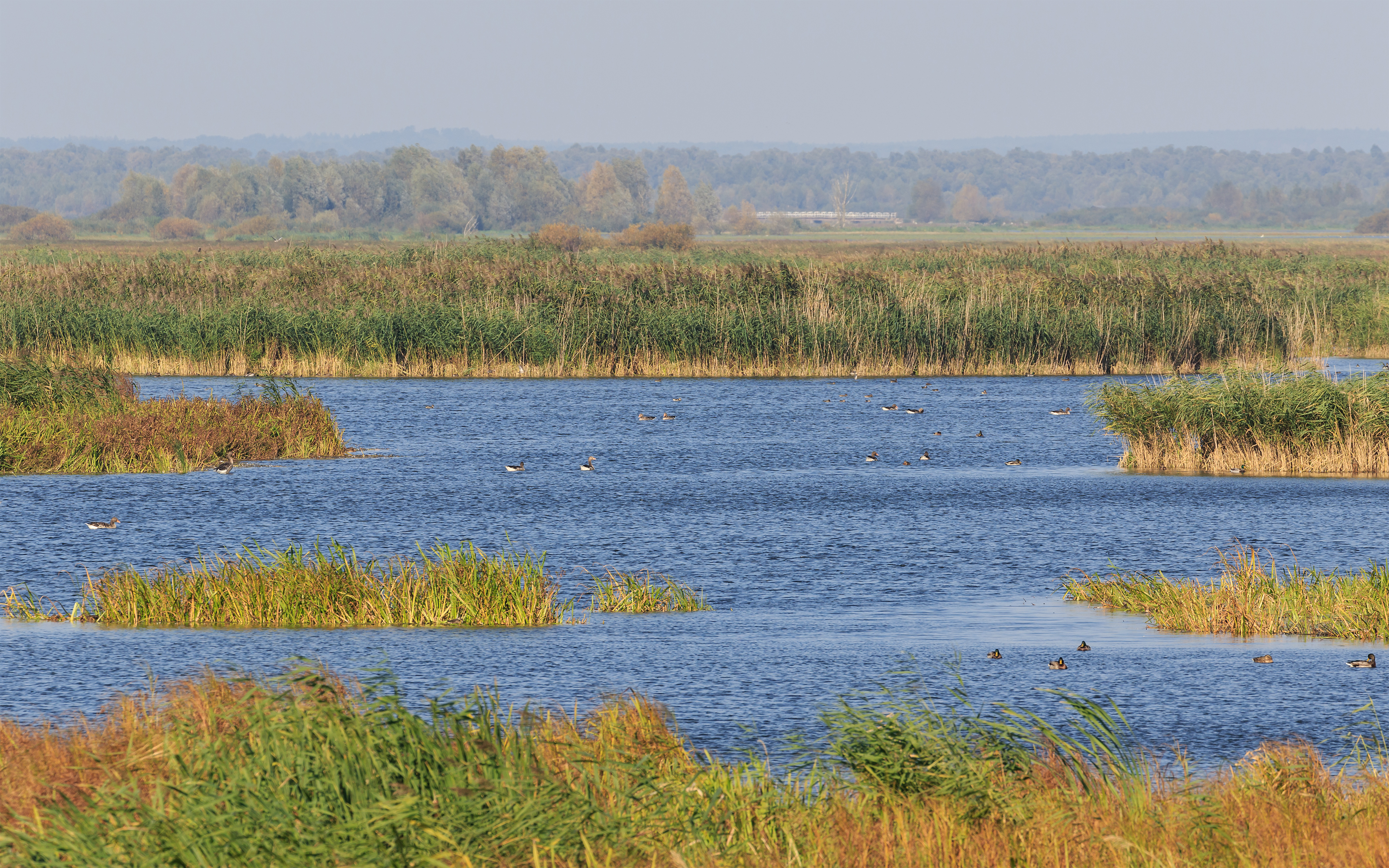 Ujście Warty National Park near Kostrzyn nad Odrą (Poland)